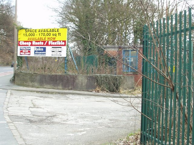 Kirkstall Forge entrance from Abbey Road, Hawksworth. This is the western entrance to the Kirkstall Forge site. The forge is a very old industrial site dating back over 200 years, possibly as long as 850. In recent years it made large castings such as gearbox casings for lorries, but the factory has been closed since 2002 It is a large site, nearly 23 hectares, and is planned for redevelopment as hotels, offices and housing - see here For photos of old parts of the site see here